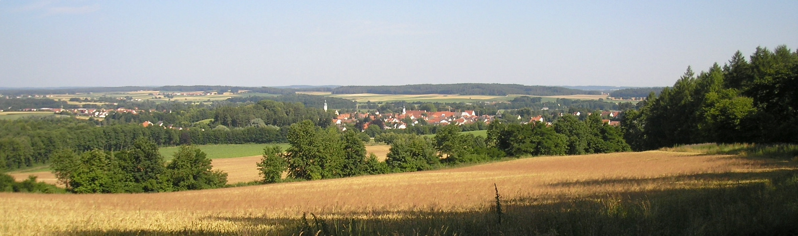 Pöttmes (Landkreis Aichach-Friedberg, Bavaria, Germany). Total view from the north west (Gumppenberg)